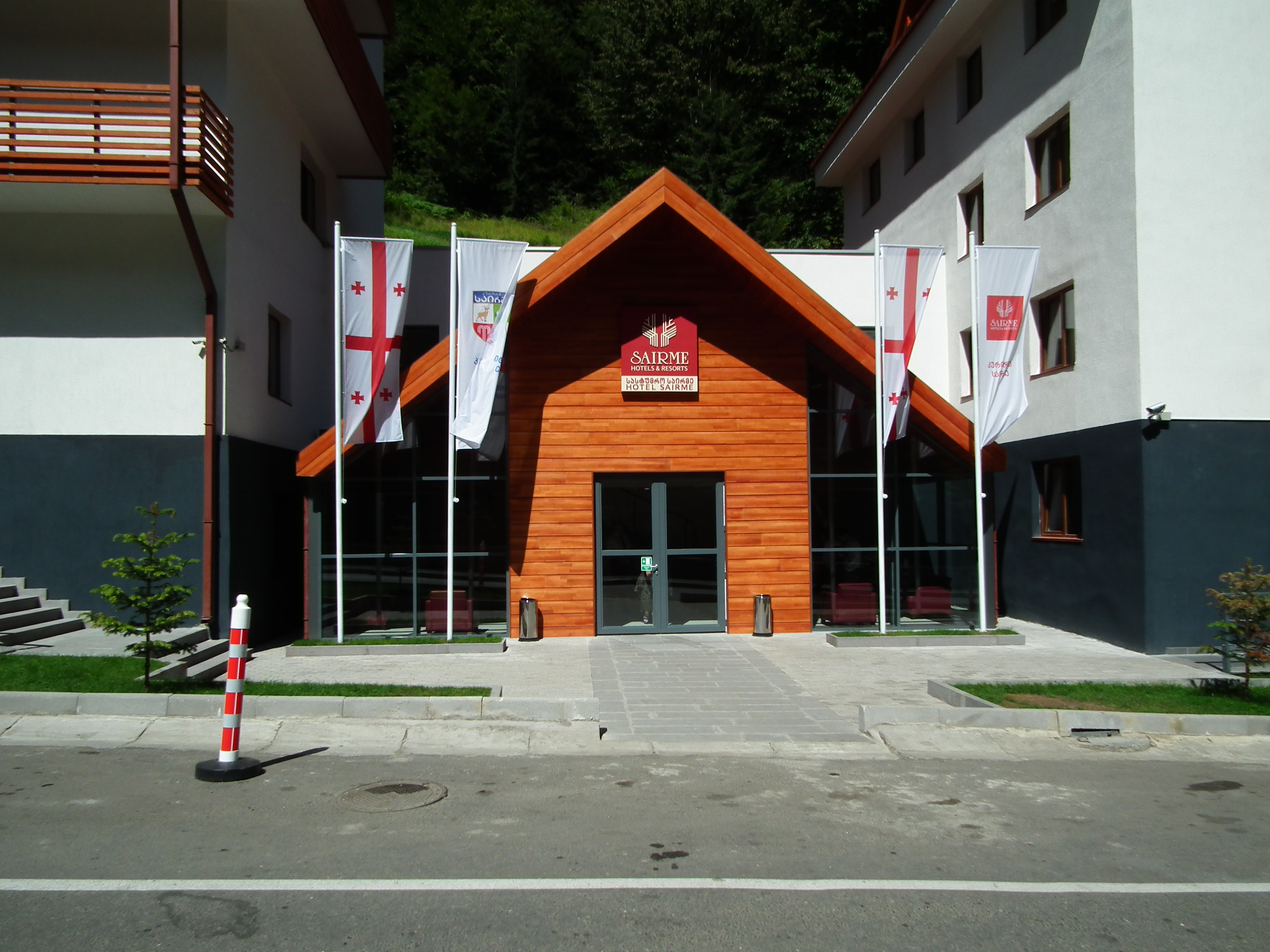 Sairme Hotel&Resorts